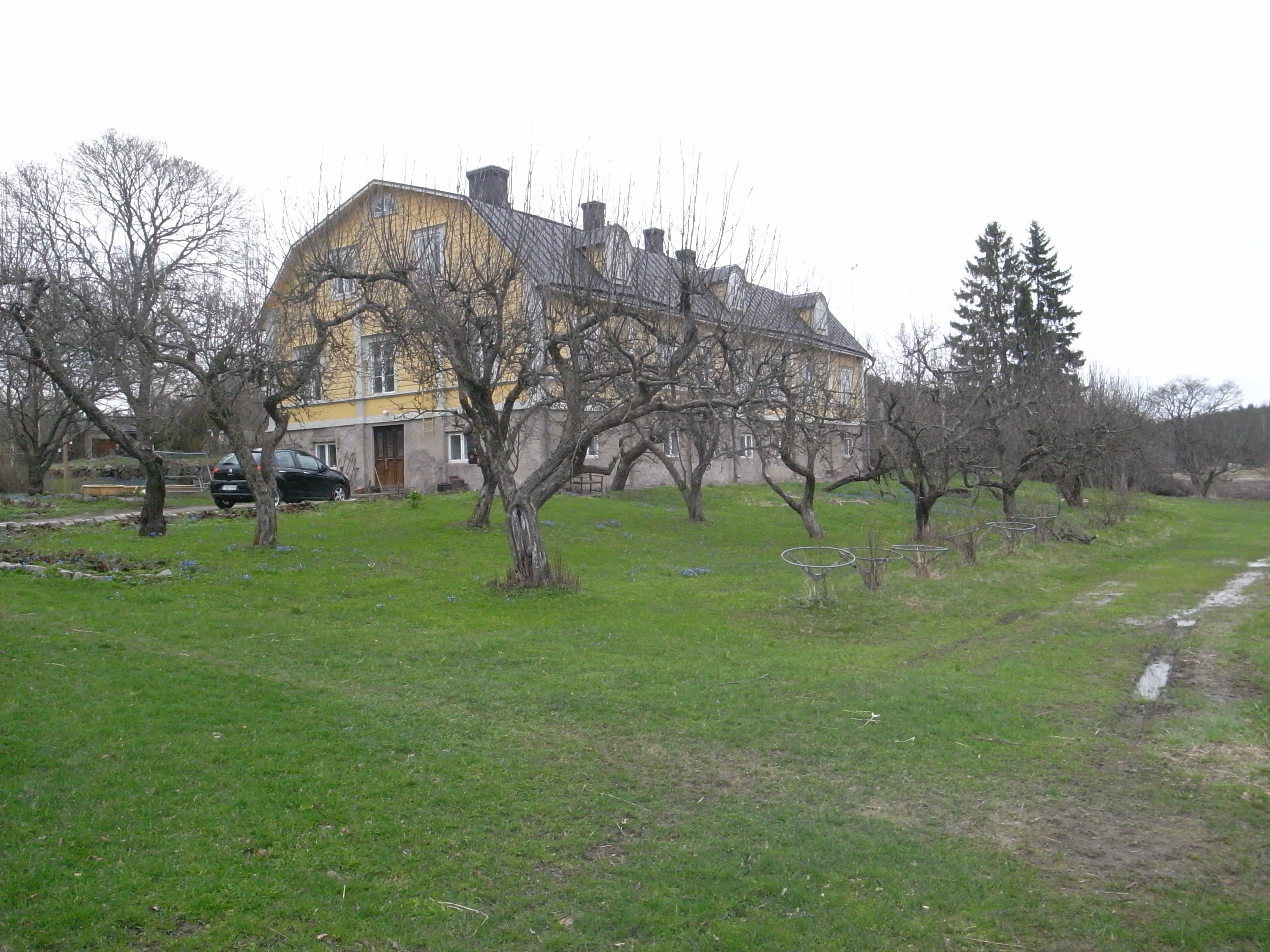 Jackarby Manor, dating at least to th 17th century. The current building is a well preserved example of building ideals 1i the 18th century when its current building was erected. Back view.